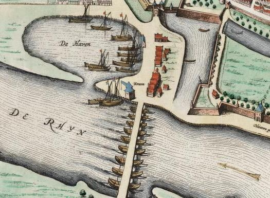 The shipbridge over the river Rhine in Arnhem.